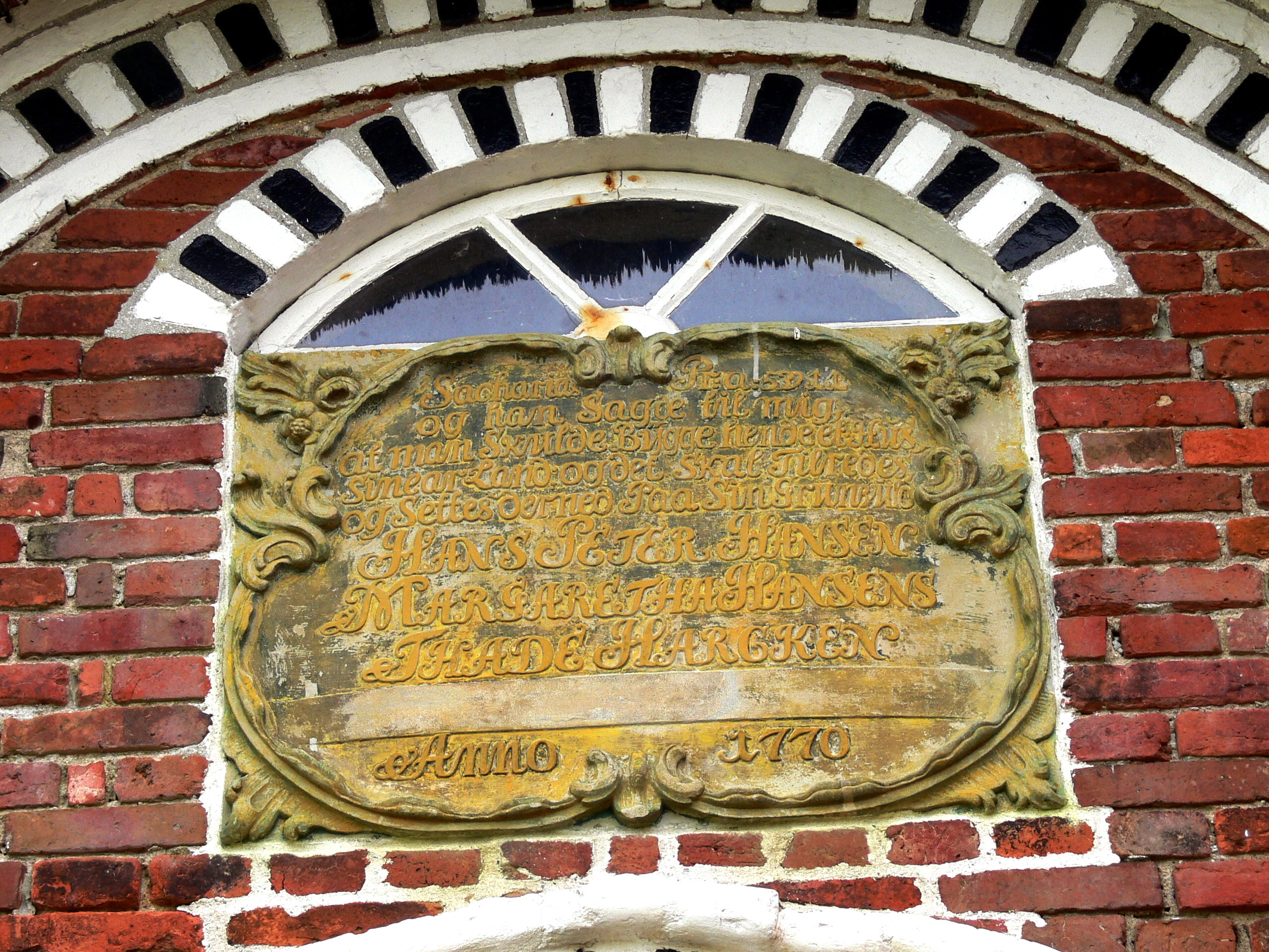 Rømø ( Denmark ). Kommandørgård National Museum - Entrance door: Inscription.